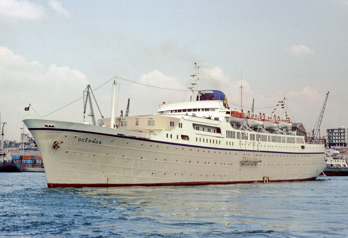 The cruise ship Oceanos leaving Piraeus Harbor on June 1986